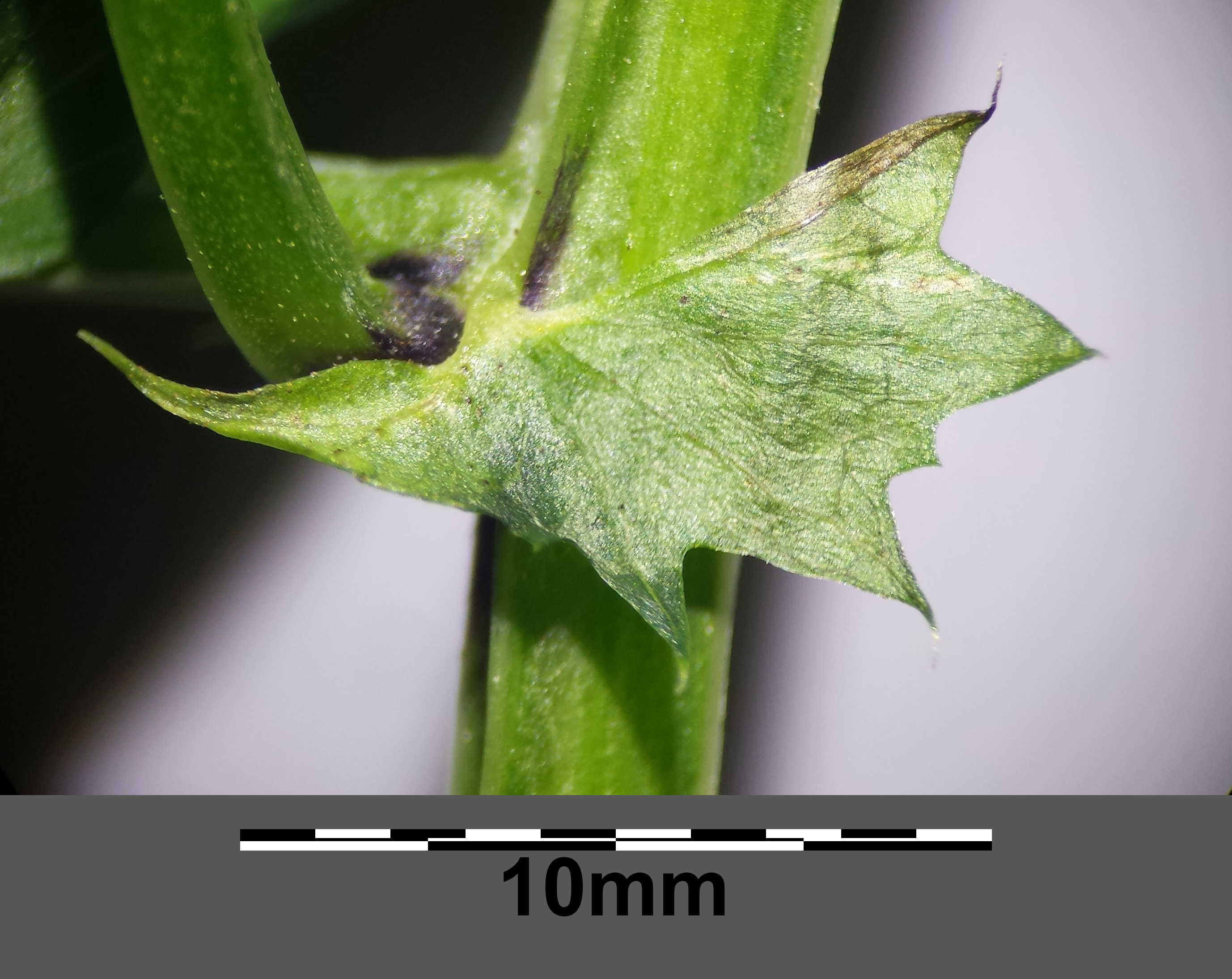 Stipule Taxonym: Vicia dumetorum ss Fischer et al. EfÖLS 2008 ISBN 978-3-85474-187-9 Location: Kremser Zwickl, district Krems-Land, Lower Austria - ca. 450 m a.s.l. Habitat: border of a shrubbery